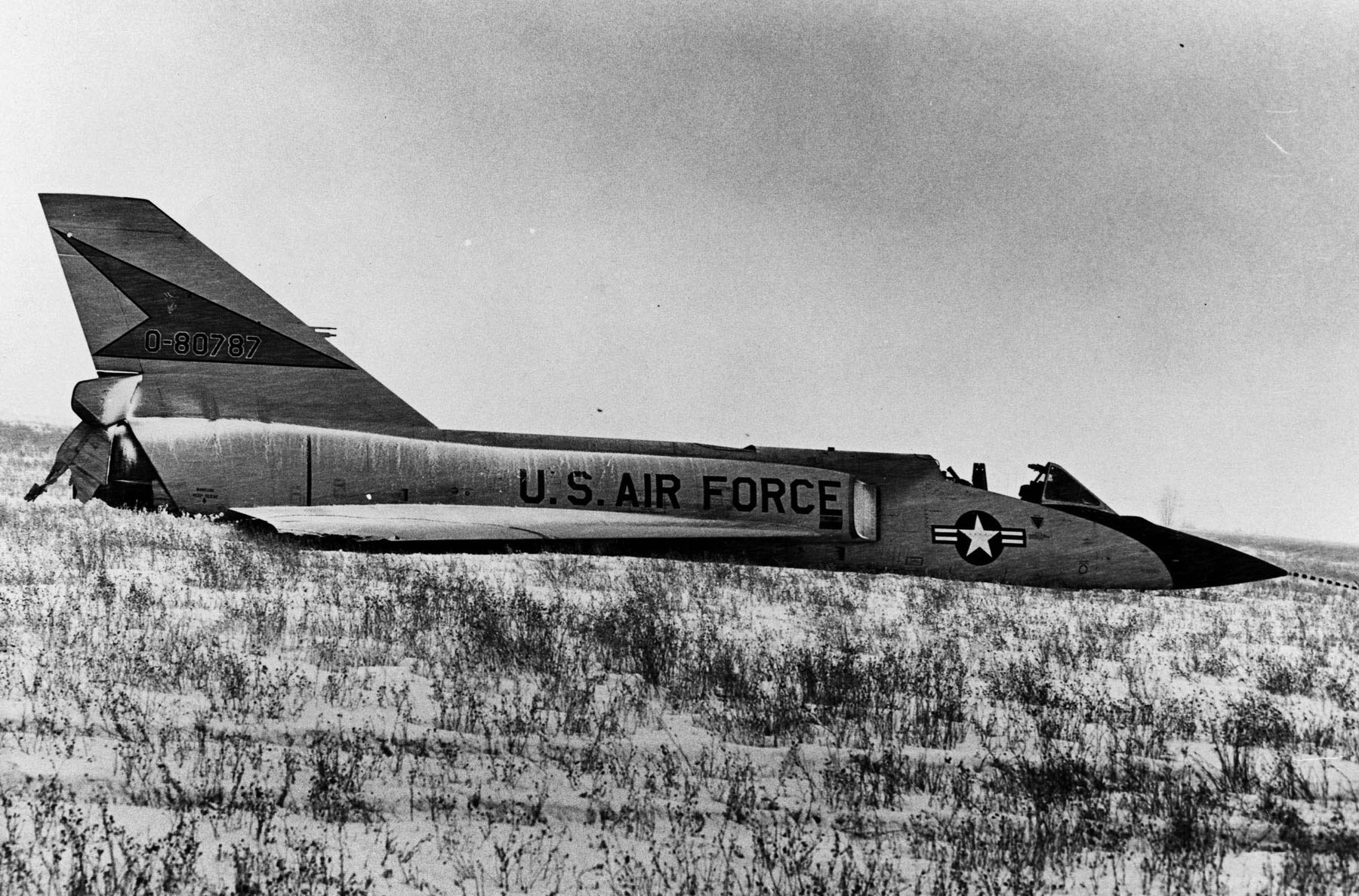 This F-106A (S/N 58-0787) was involved in an unusual incident. During a training mission, it entered an flat spin forcing the pilot to eject. Unpiloted, the aircraft recovered on its own and miraculously made a gentle belly landing in a snow-covered field. (U.S. Air Force photo)